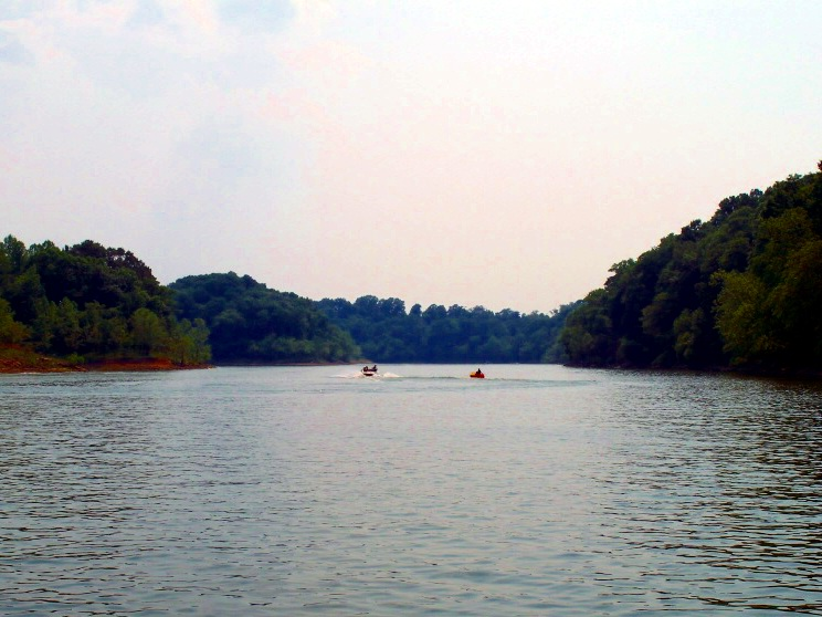 Rough River Lake south of Clifty Creek.